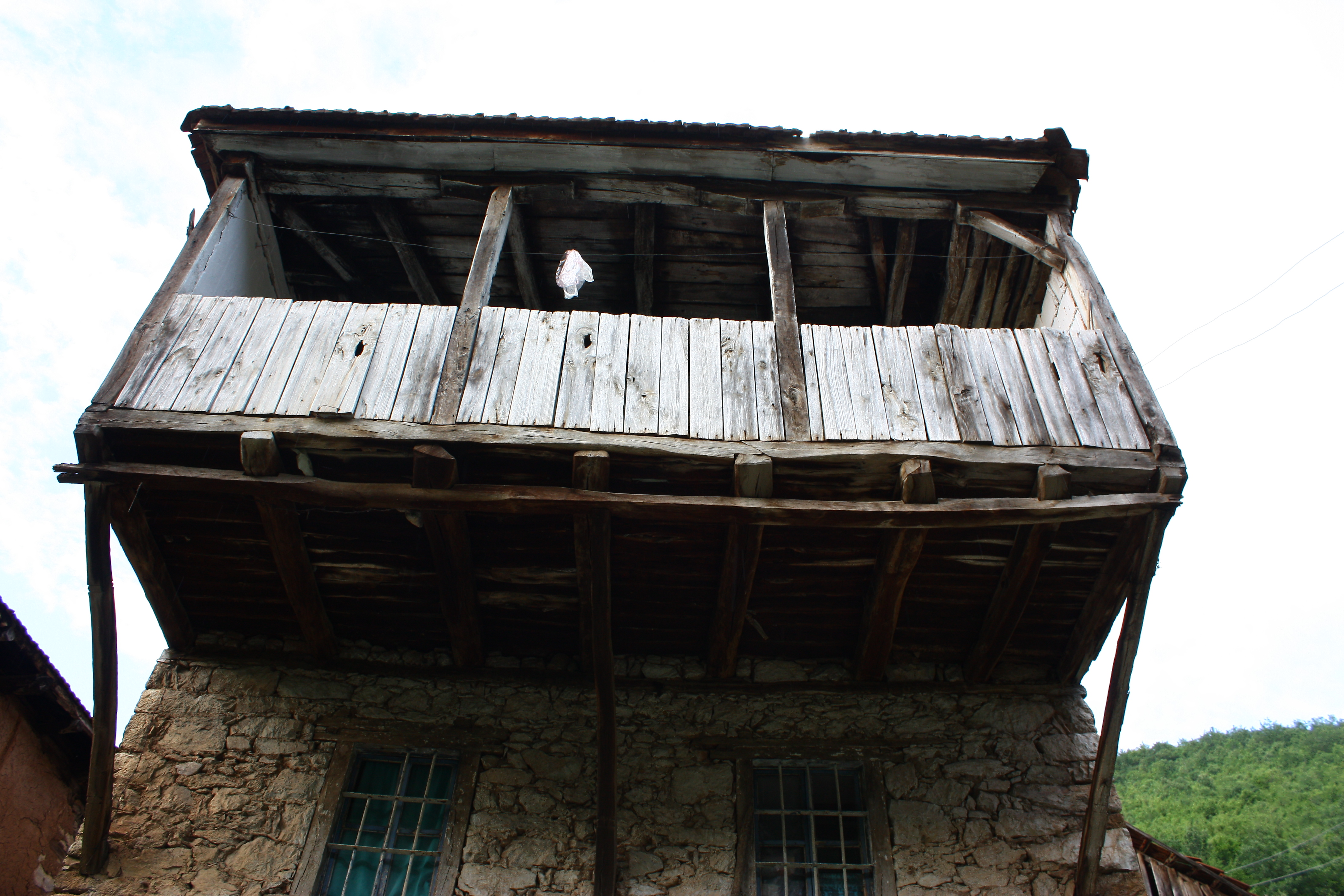 Village of Železnec, Macedonia